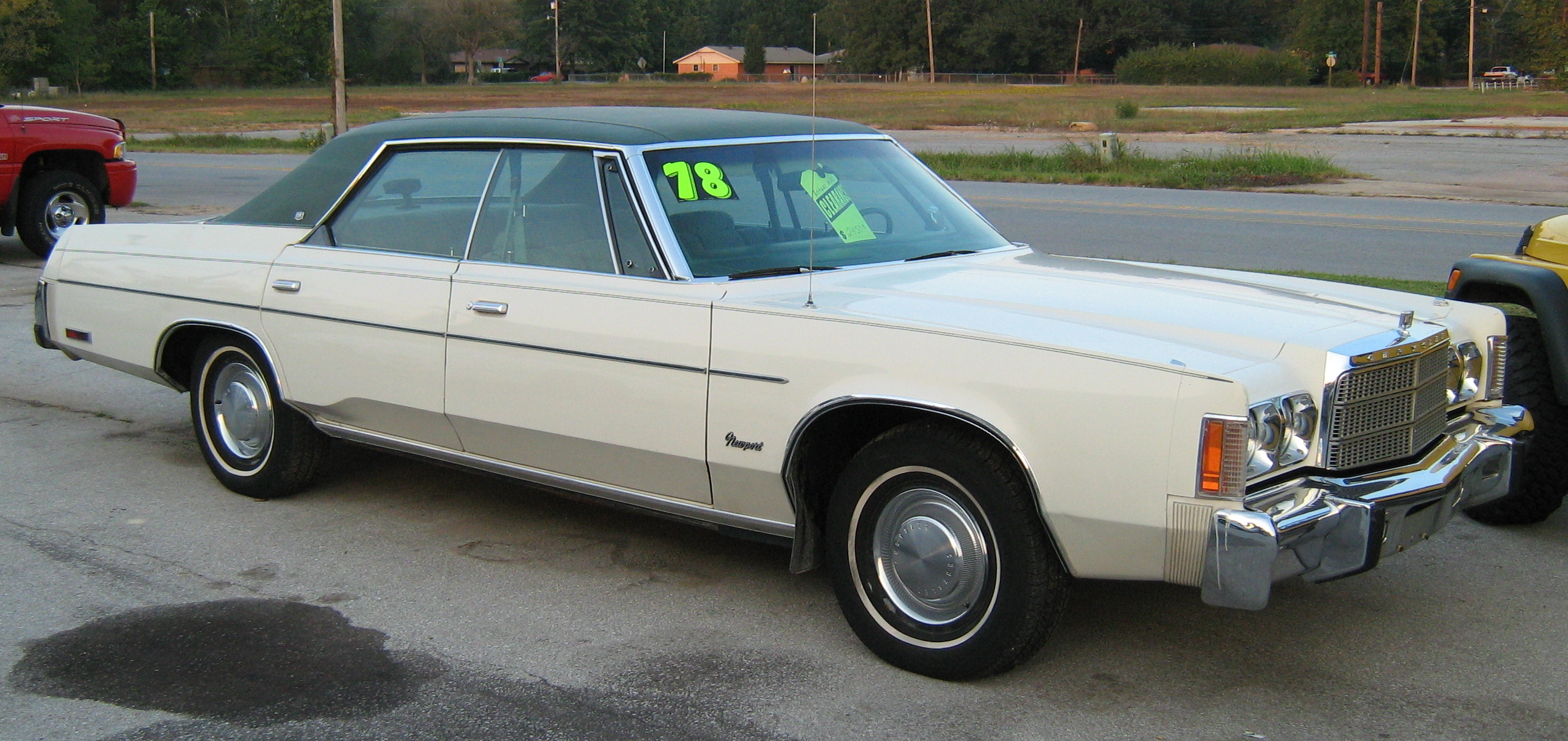 1978 Chrysler Newport 4-door hardtop - Right side view